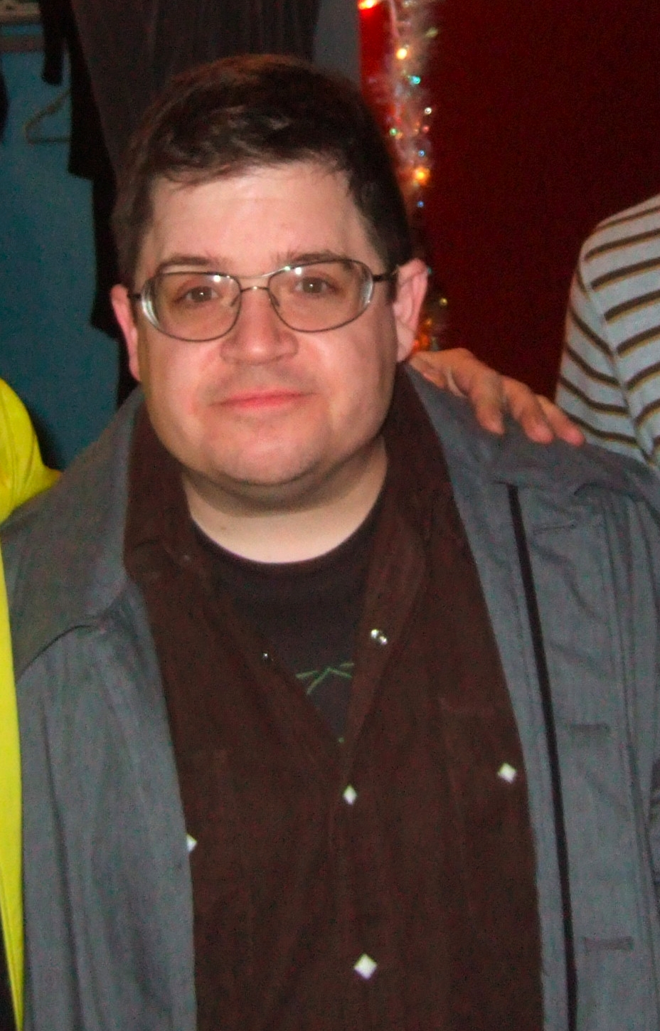 Patton Oswalt at Cobb's Comedy Club, San Francisco, CA.